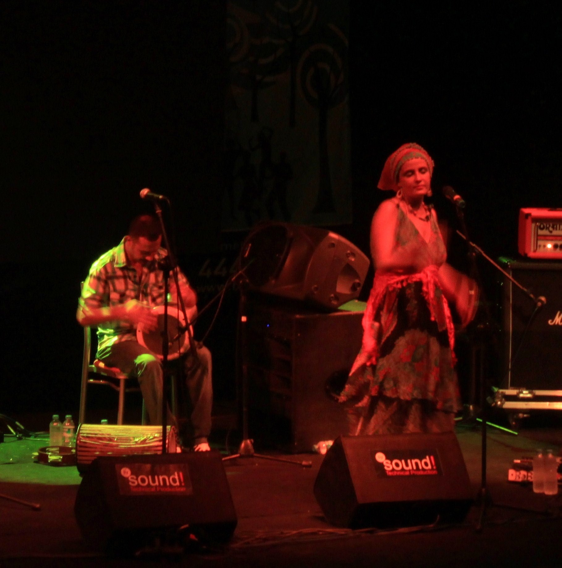 Baba Zula members performing at Abbasağa Park (Beşiktaş Municipality "Summer evening concerts", Istanbul 2010), from right to left: Elena Hristova, Çoşar Kamçı